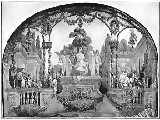 Design for a Baumgarten Tapestry: Allegory of Music with what is presumably the Muse of Music, Euterpe, seated in the center